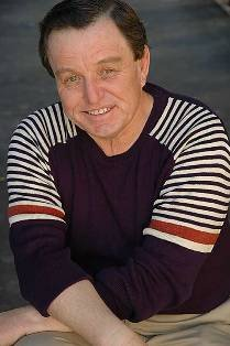 Jerry Mathers headshot